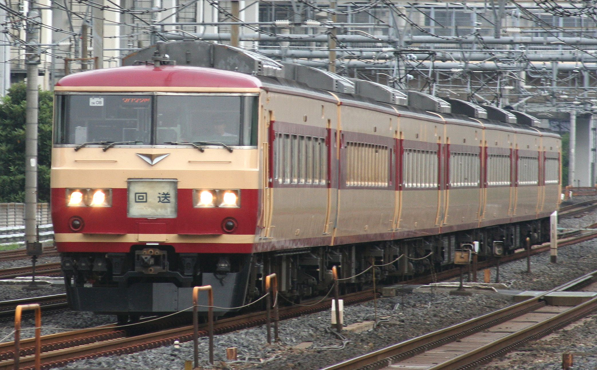 JR East 185 series EMU set OM08 in Amagi livery near Hihashi-Jujo in Tokyo on an empty stock working